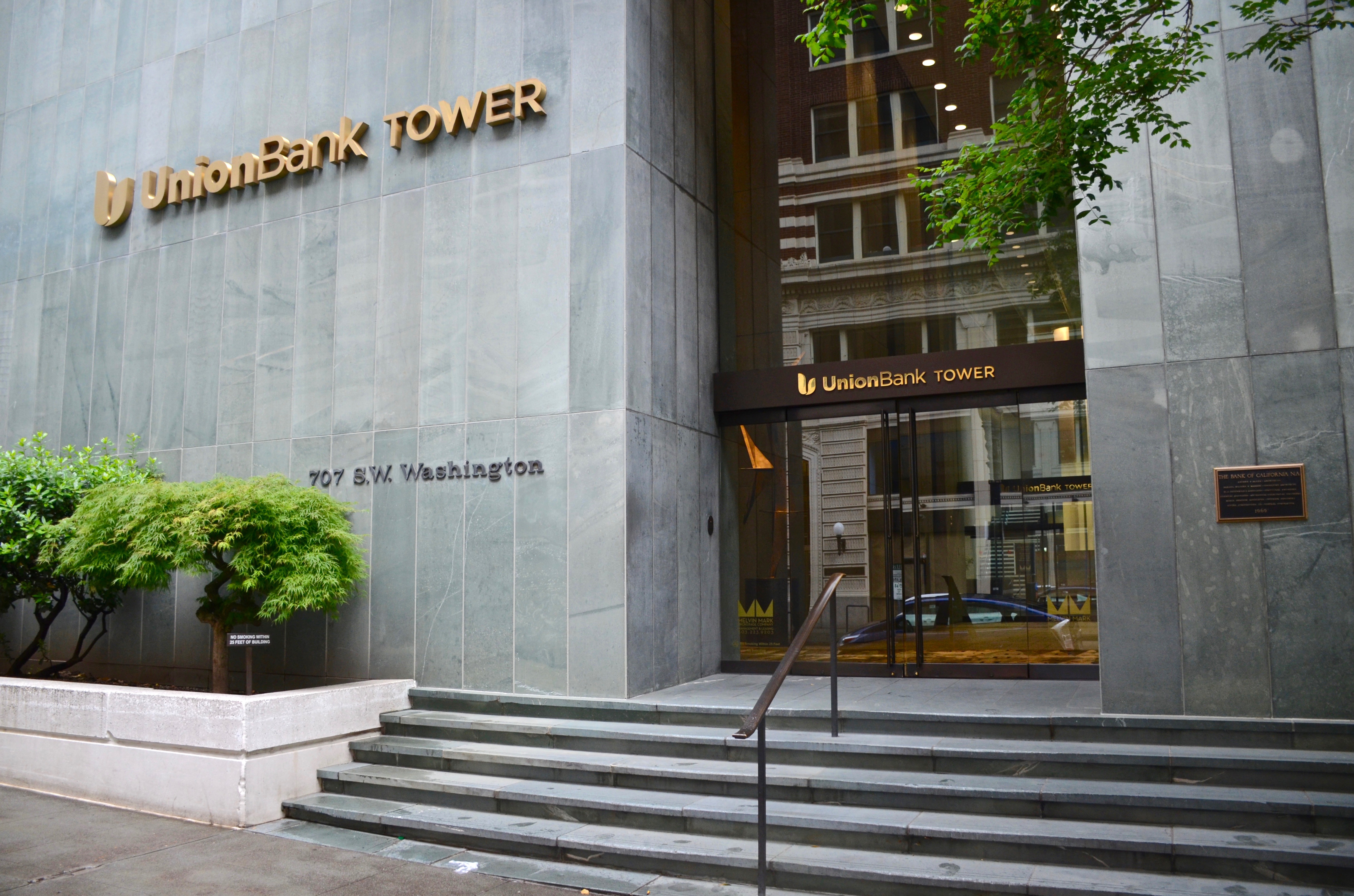 The Washington Street entrance to the UnionBank Tower, in Portland, Oregon, on the building's south side. The 15-story tower was built in 1969 as the (new) Bank of California building – a fact mentioned on the bronze plaque visible at right.